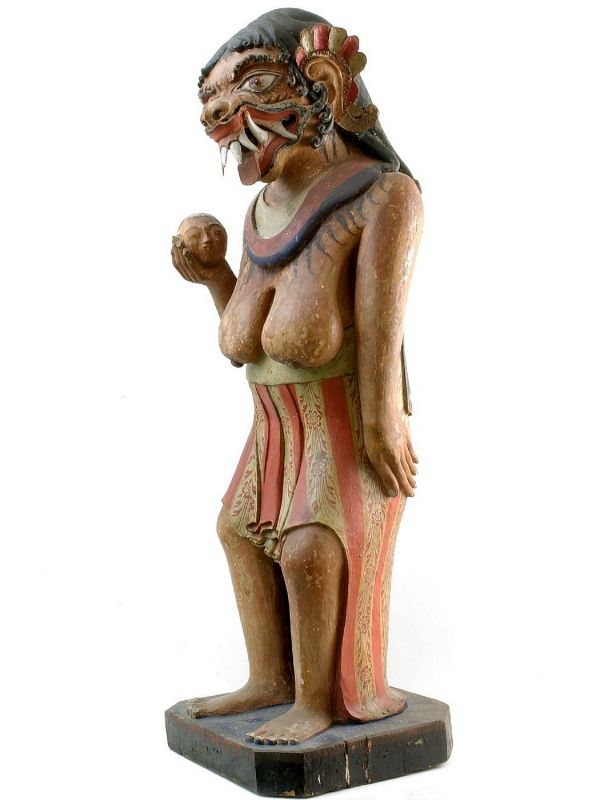 Wooden statue of the goddess Kalika